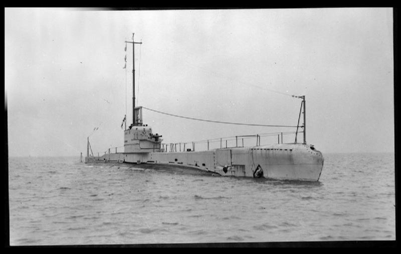 HMSM Rainbow Underway.